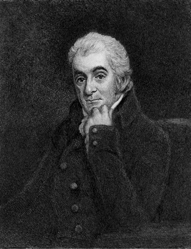 Samuel Rogers (1763-1855), Poet, banker and connoisseur.